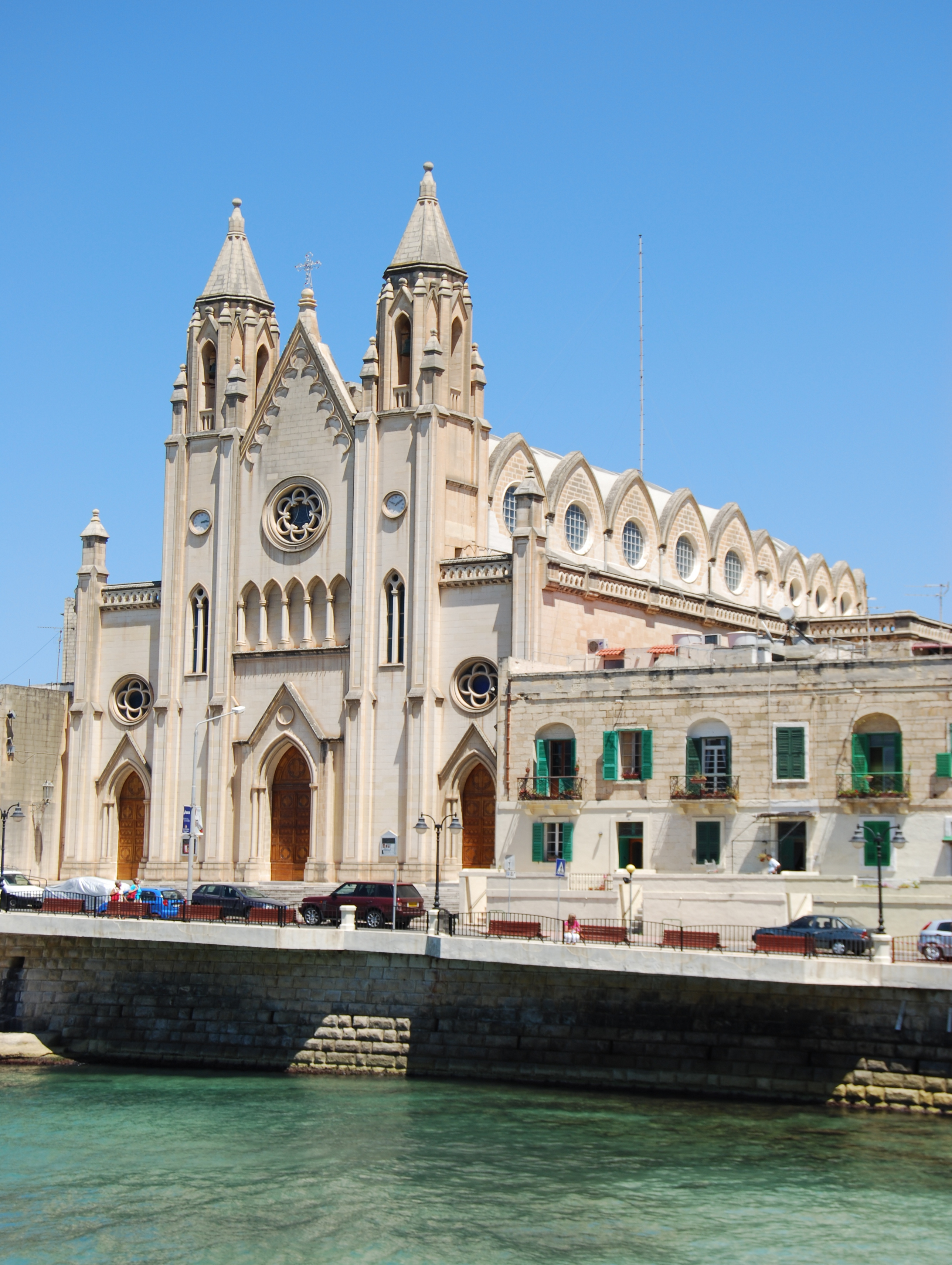 A church in St. Julian's, Malta.